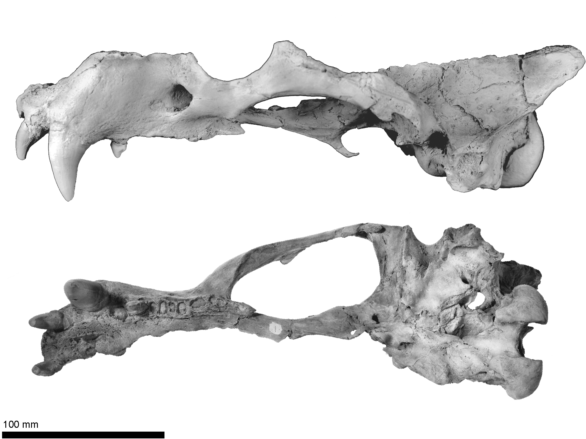 The left-side view (top) and the underside view (bottom) of the creature's skull. Notice that its teeth are sharp, but nowhere near as long as modern walrus tusks.